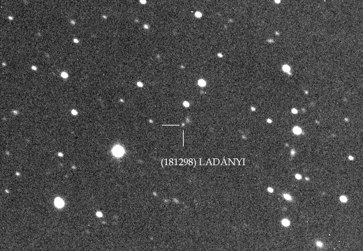 181298 Ladányi asteroid